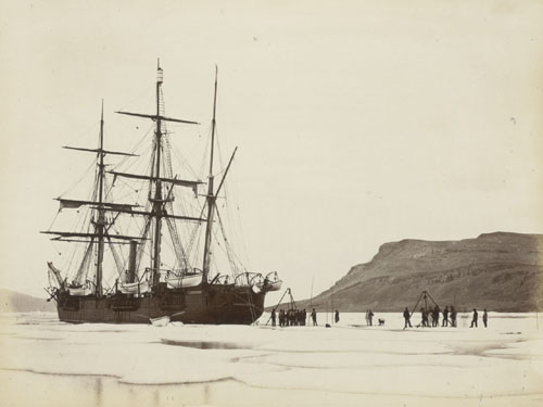 Reproduction ID: B3669-N Maker: George White Date: 14 August 1875